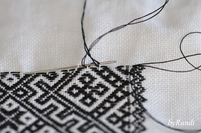 the photo shows a smøyg embroidery, a traditional technique still much used in Norwegian folk costumes. Also known from other countries